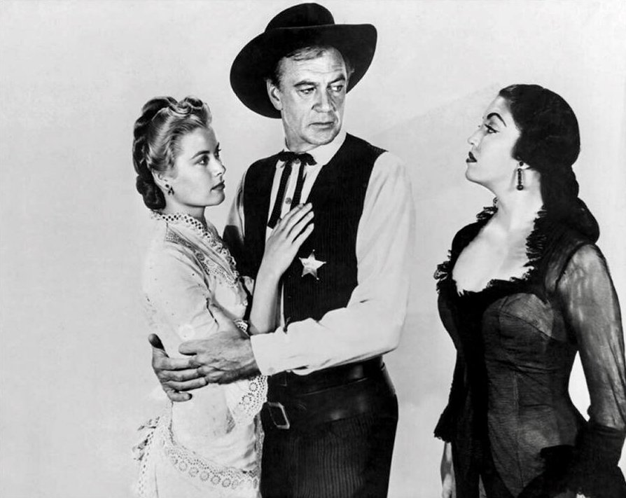 Grace Kelly, Gary Cooper & Katy Jurado. Publicity portrait for film High Noon (1952).